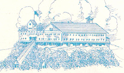 This drawing is a partial reproduction of the cover of a promotional pamphlet for the Mt. Holyoke Hotel of South Hadley, Massachusetts in the United States, obtained by a visitor to that hotel in 1931. The pamphlet itself has no copyright information and was distributed free of charge to all visitors.